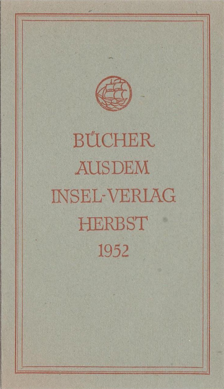 List of Books (Advertizement) Insel Verlag (Publisher)